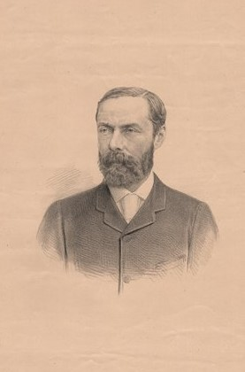 The Lord Stalbridge in 1889.